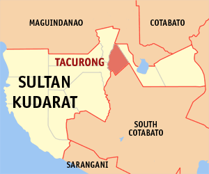 Map of the Sultan Kudarat showing the location of Tacurong